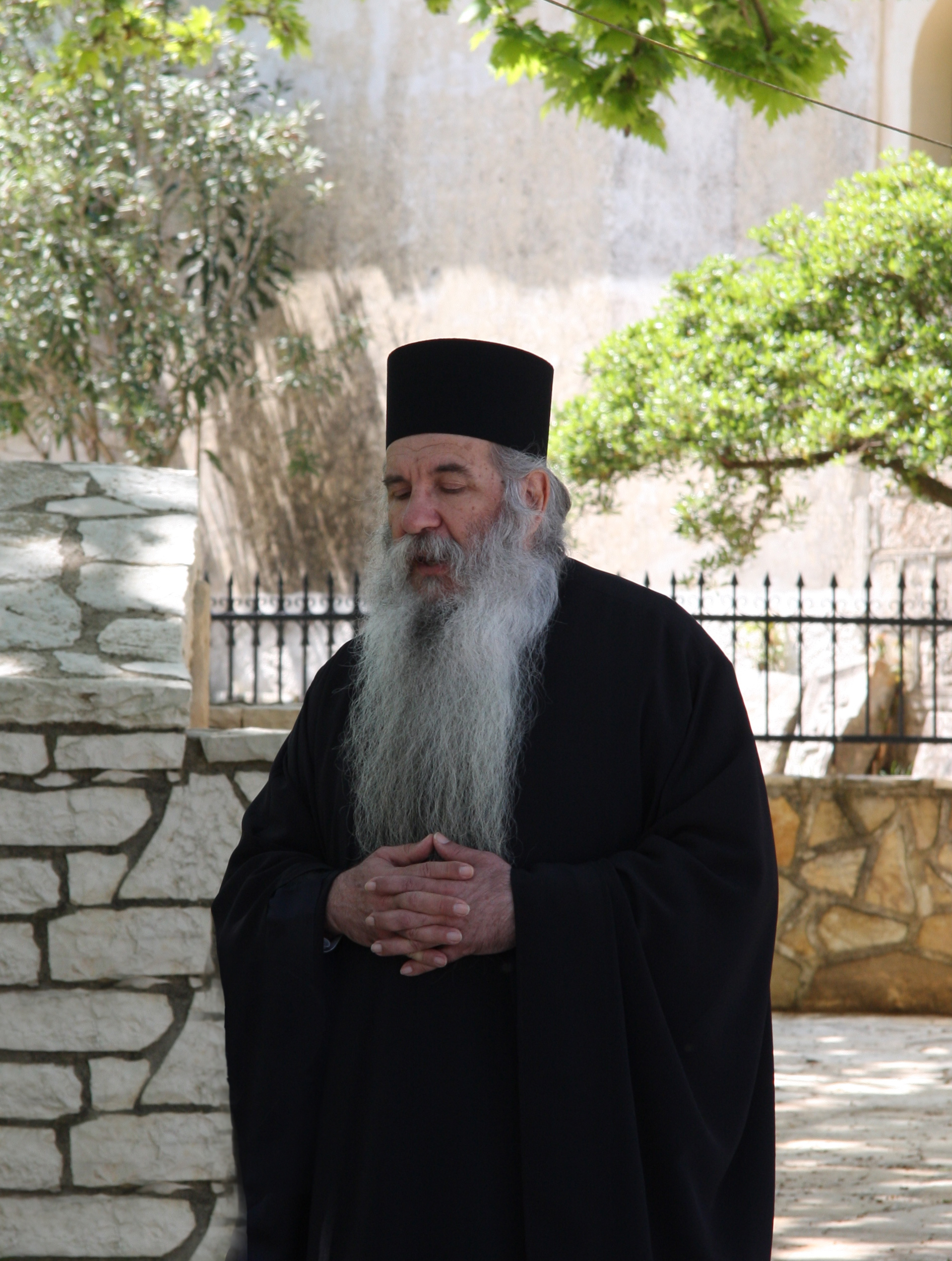 Greek Orthodox priest in Cephalonia